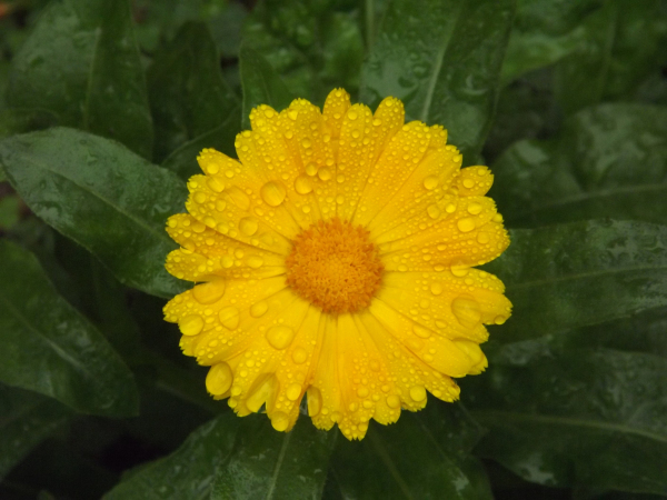 We are also called pot marigold, ruddles, common marigold, garden marigold, English marigold, or Scottish marigold. Oh, I feel puzzled about my different names. This may also make I forget my hometown, southern Europe or garden?